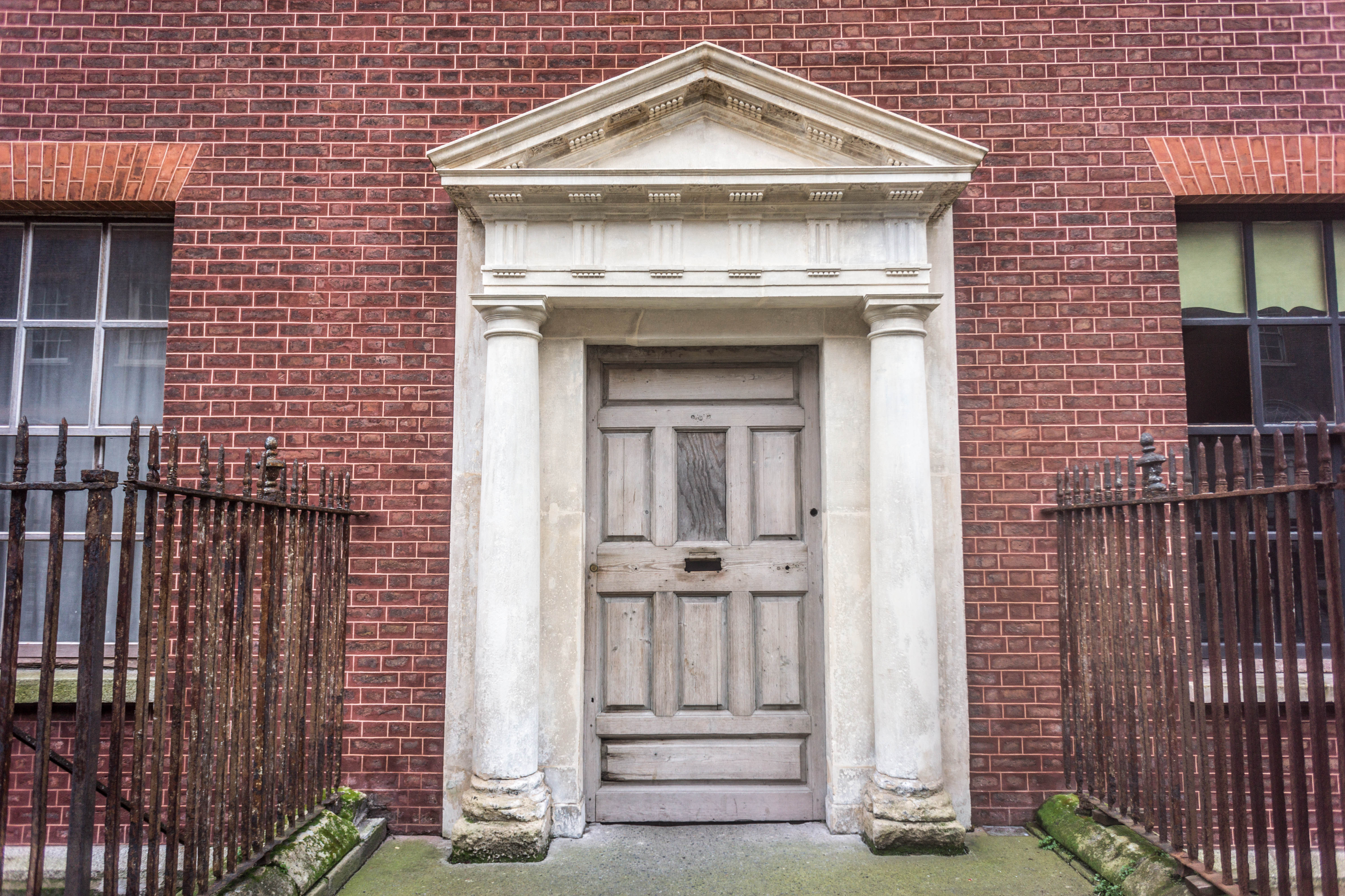 Number 13 Henrietta Street Nos. 13, 14 & 15 (south-side), built simultaneously by Luke Gardiner in the early 1740s, and first leased to Nicholas Loftus (from 1766 the Earl of Ely), Richard 3rd Viscount Molesworth (Commander-in-Chief of the Forces in Ireland from 1751), and Sir Robert King (Baron Kingsborough from 1748) respectively. Unfortunately anti-social behaviour is a major and increasing problem in Henrietta Place and On Hebrietta Street itself so if you plan to visit try to do so during normal working hours. Henrietta Street is a historic Dublin street, to the north of Bolton Street on the north side of the city, first laid out and developed by Luke Gardiner during the 1720s. A very wide street relative to streets in other 18th-century cities, it includes a number of very large red-brick city palaces of Georgian design. The street is generally held to be named after Henrietta, the wife of Charles FitzRoy, 2nd Duke of Grafton, although an alternative candidate is Henrietta, the wife of Charles Paulet, 2nd Duke of Bolton. The nearby Bolton Street is named after Paulet. Henrietta Street is the earliest Georgian Street in Dublin. Construction on the street started in the mid 1720s, on land bought by the Gardiner family in 1721. Construction was still taking place in the 1750s. Gardiner had a mansion, designed by Richard Cassels, built for his own use around 1730. The street was popularly referred to as Primate's Hill, as one of the houses was owned by the Archbishop of Armagh, although this house, along with two others, was demolished to make way for the Law Library of King's Inns. The street fell into disrepair during the 19th and 20th centuries, with the houses being used as tenements, but has been the subject of restoration efforts in recent years. There are currently 13 houses on the street and some appear to be in very poor condition. The street is a cul-de-sac, with the Law Library of King's Inns facing onto its western end.